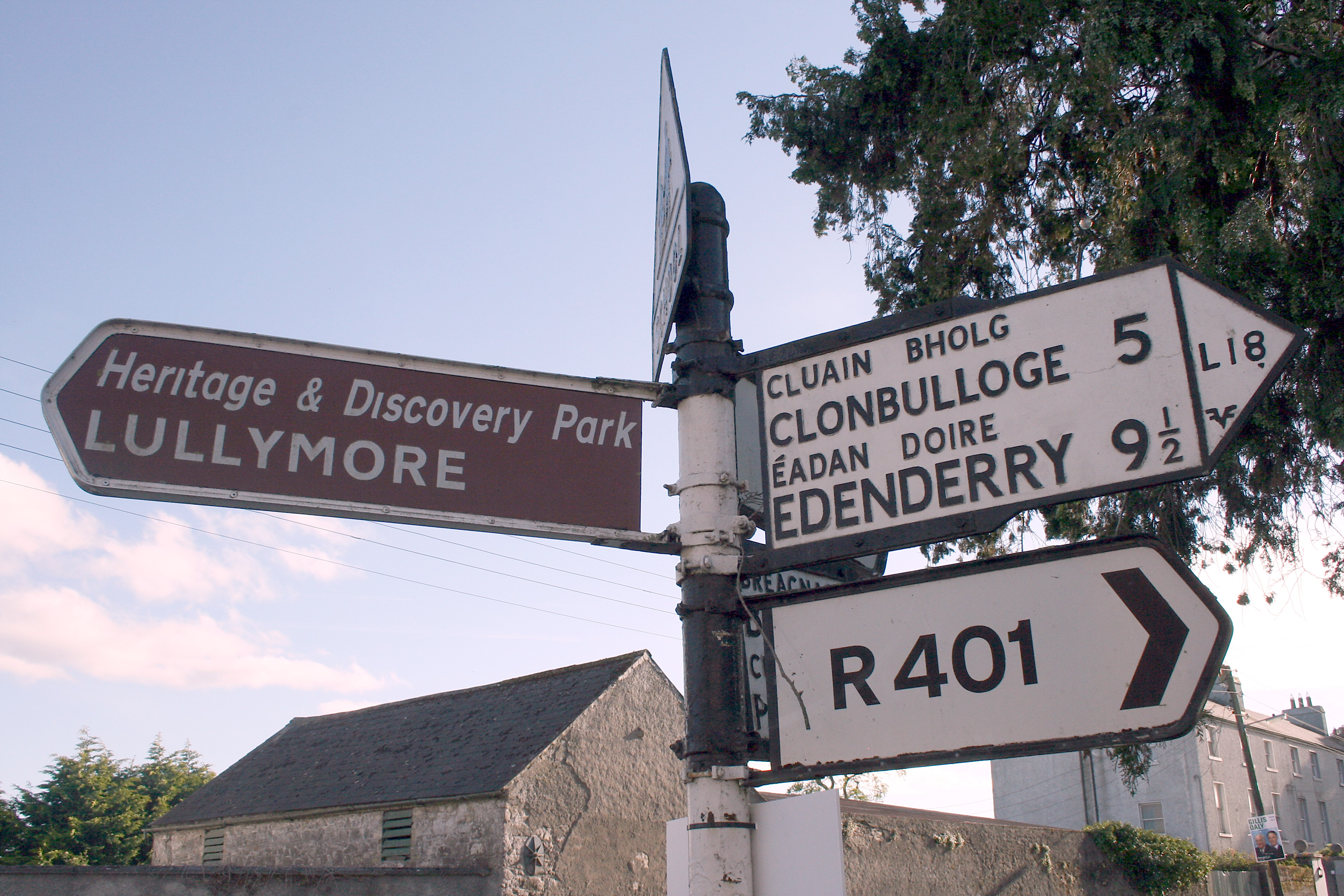 Sign for the R401 in Rathangan. Note and miles and the old route number L18 on the older sign.